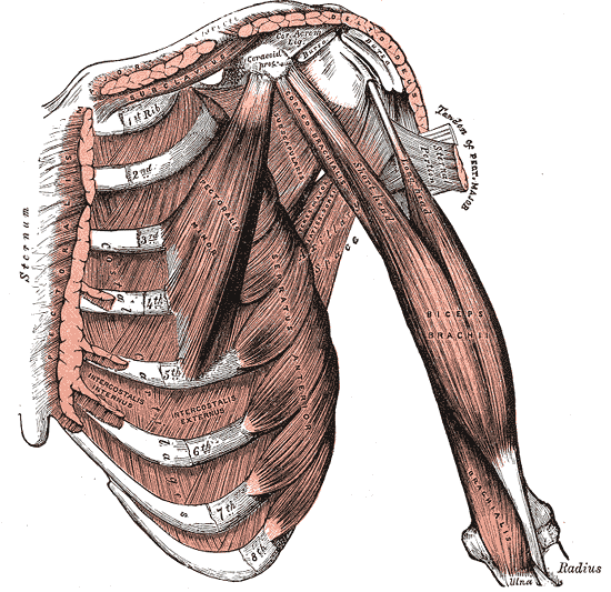 deep front muscles of arm